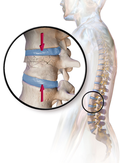 Vertebral compression fracture. See a full animation of this medical topic.